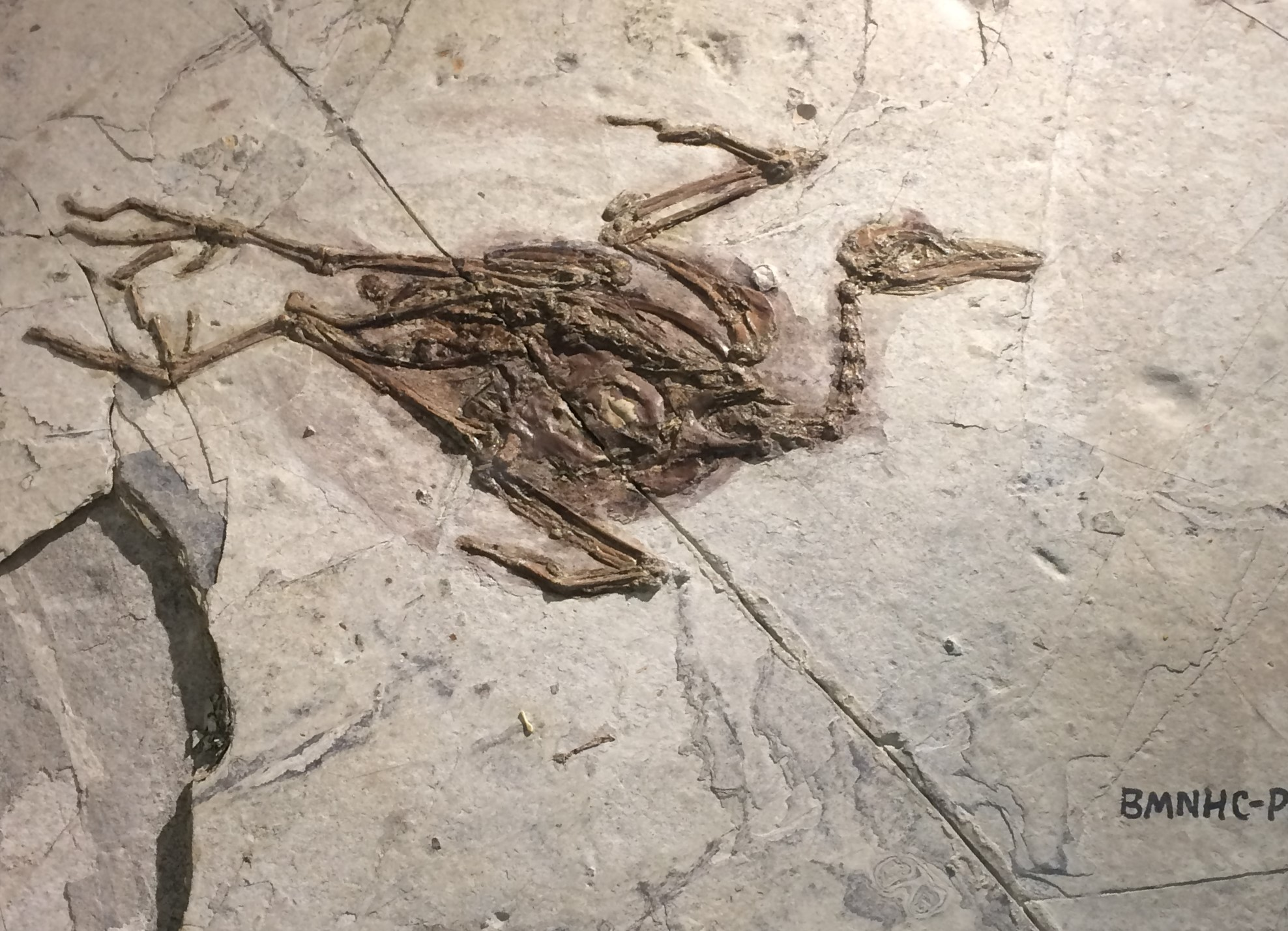 Gansus at Beijing Museum of Natural History